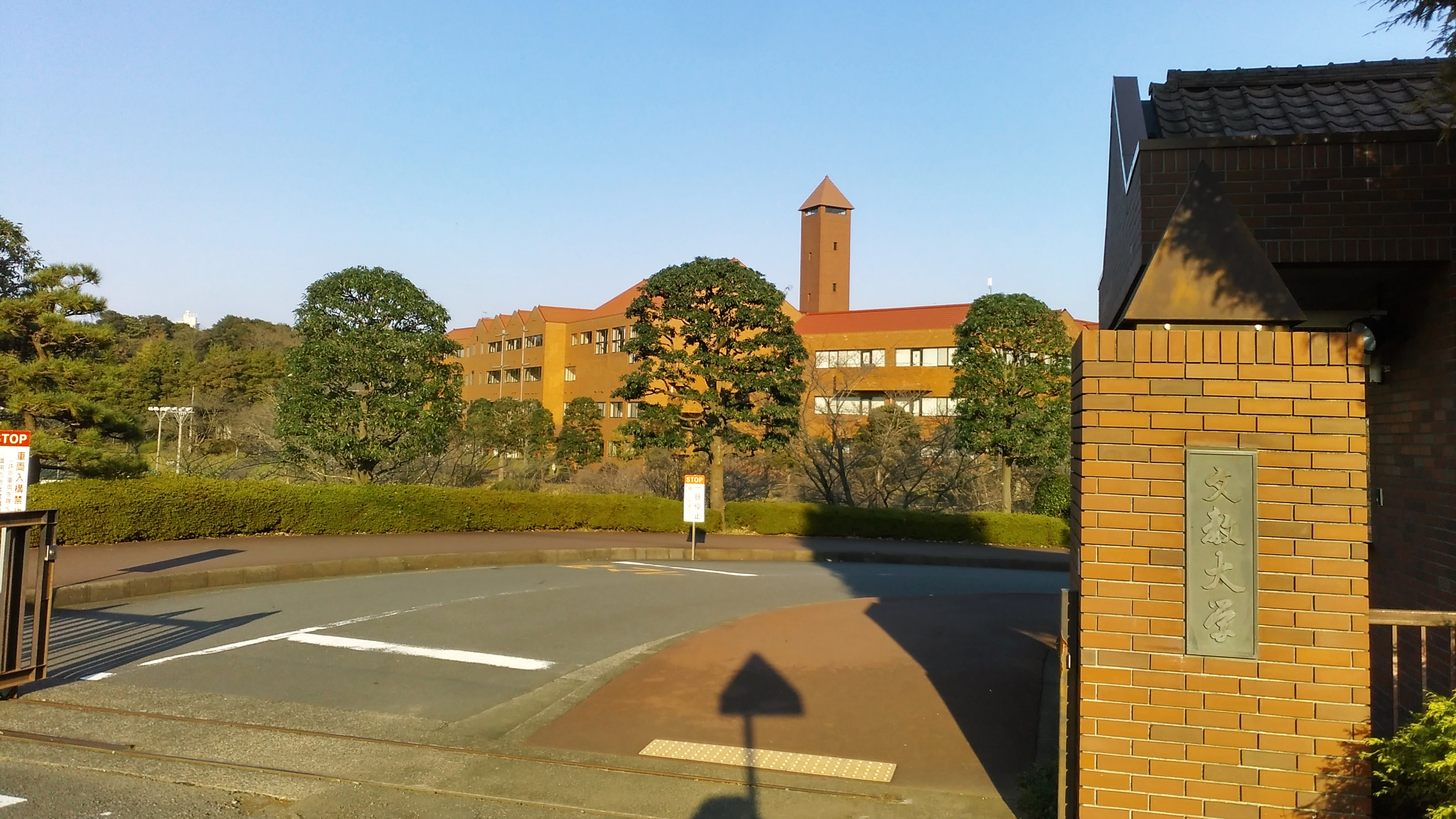 Main entrance to Bunkyo University Shonan Campus located in Chigasaki, Kanagawa, Japan.